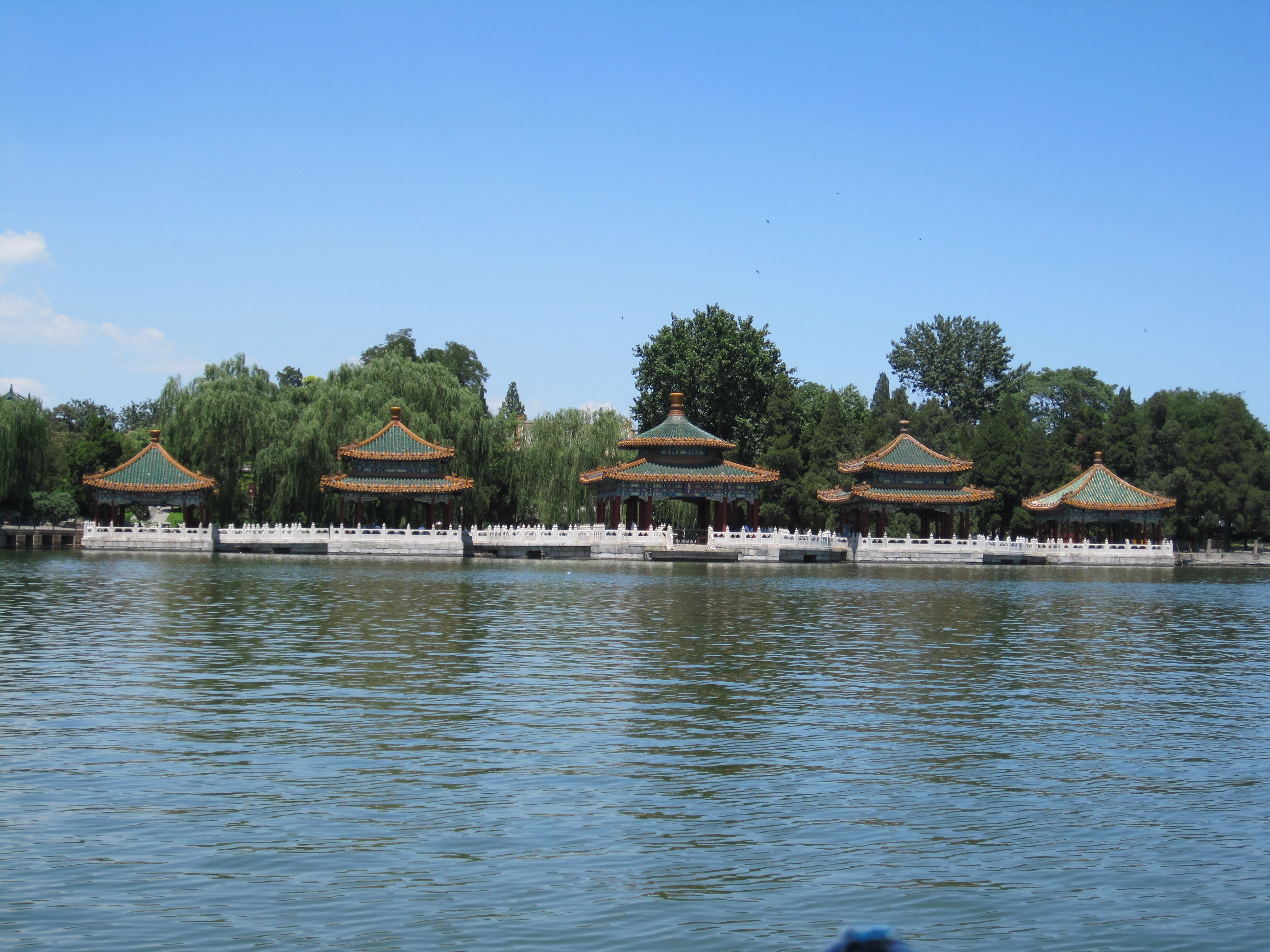 The Five-Dragon Pavilions in Beihai Park (Beijing, China).